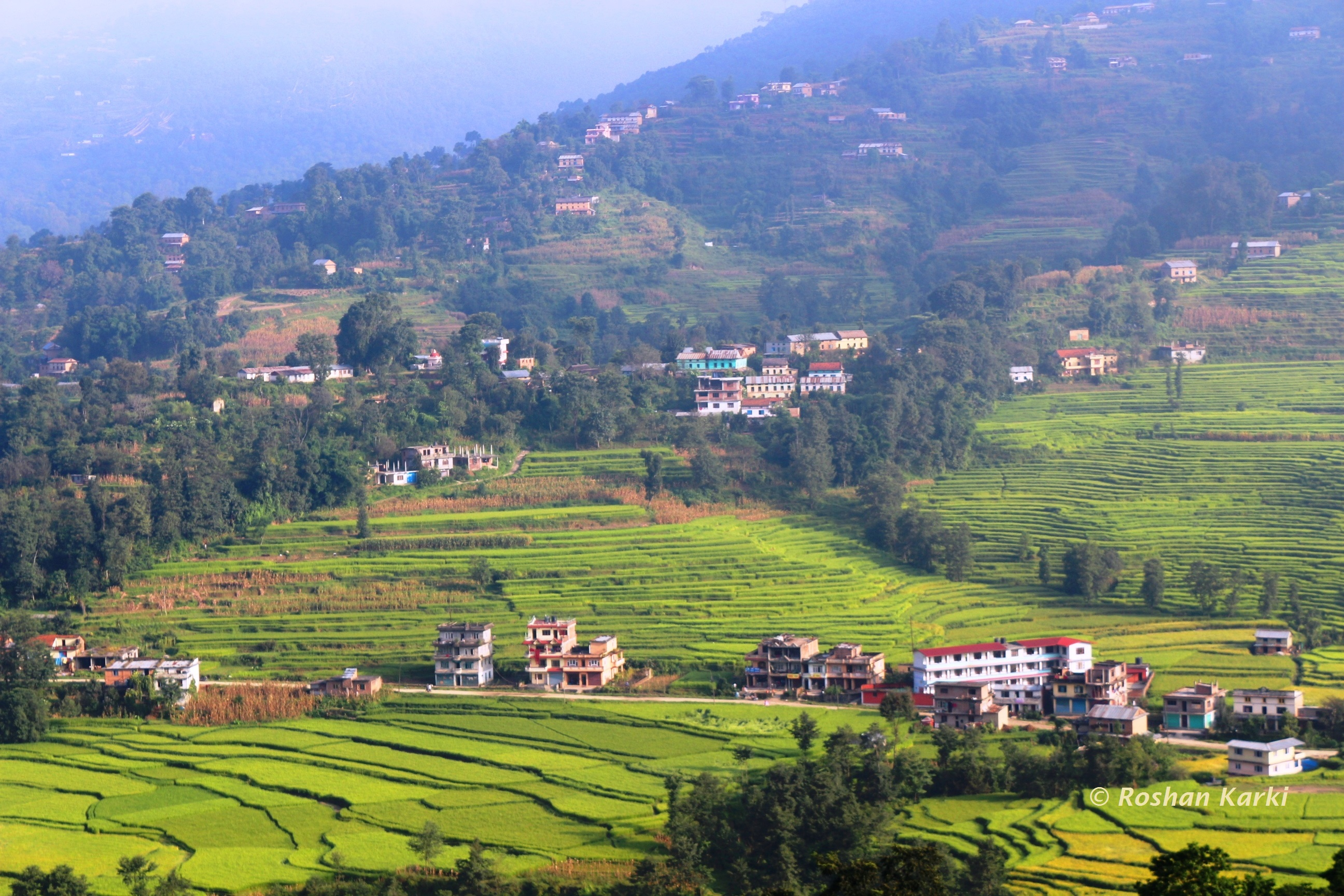 A small village Palubari Nepal is 18 km from kathmandu city.